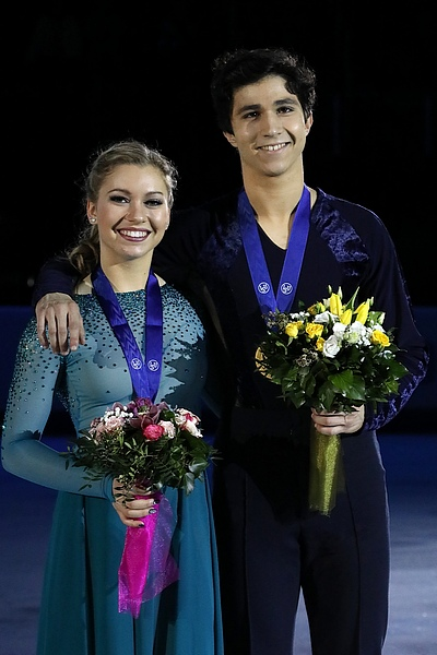 Marjorie Lajoie and Zachary Lagha at the 2019 Junior World Championships - Awarding ceremony